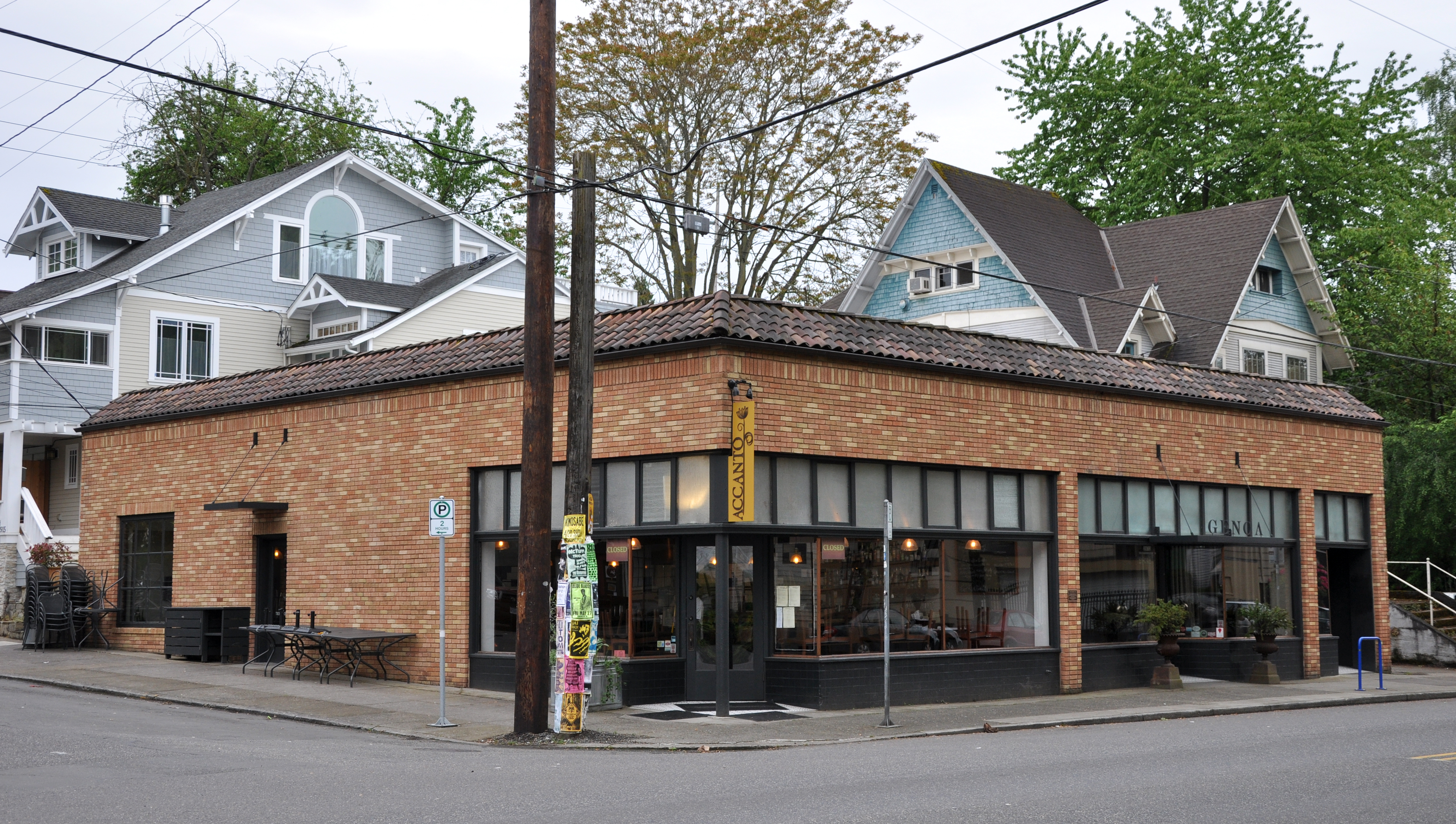 The Genoa Building in southeast Portland in the U.S. state of Oregon. The structure is on the National Register of Historic Places.